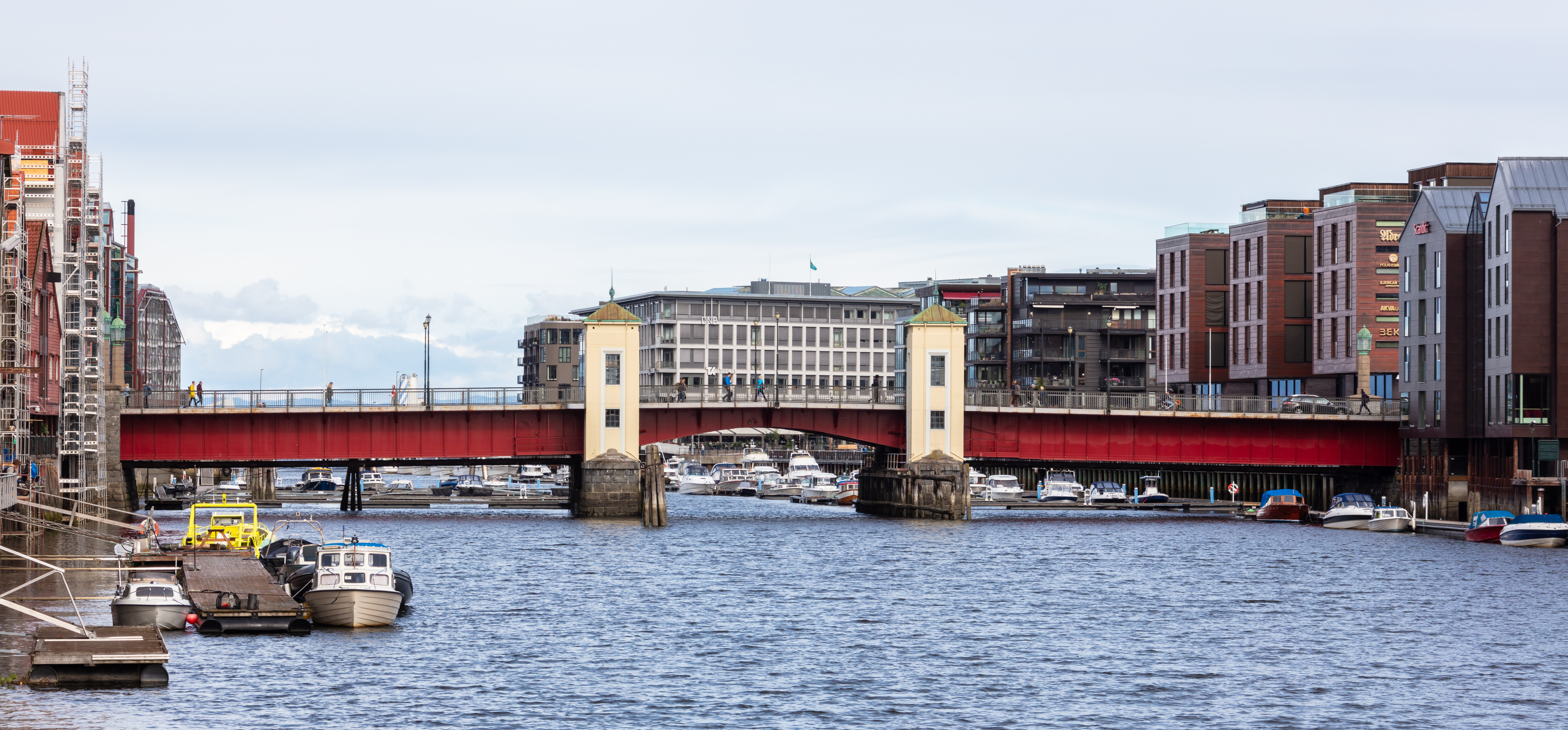 Bakke bridge, Trondheim, Norway. It is a bascule bridge, but its moveable span was disabled many years ago, and the bridge is no longer able to open.